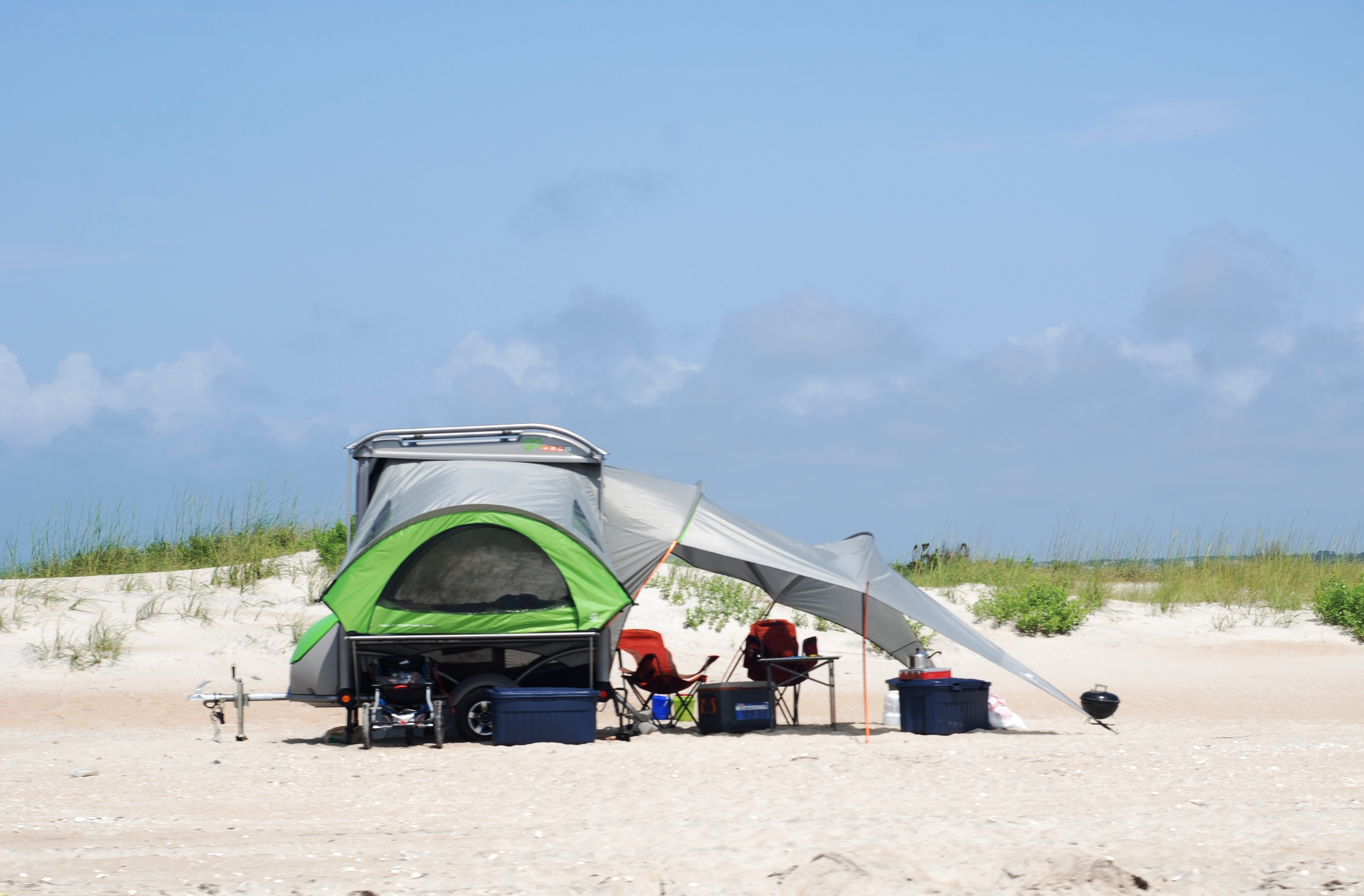 Recreational vehicle from Core Banks, North Carolina